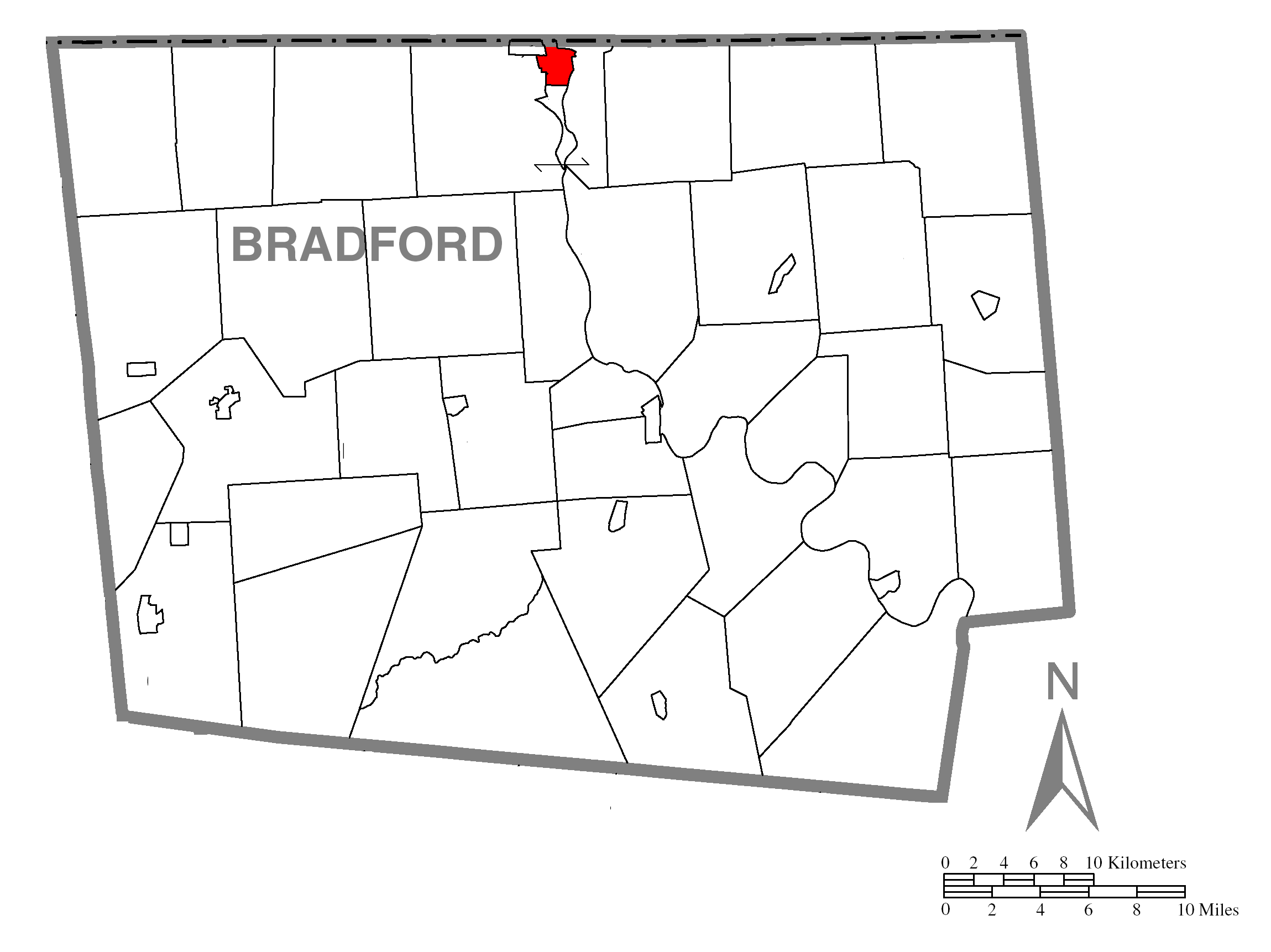 A map of Bradford County showing Sayre, Pennsylvania (alternate) highlighted on the map.